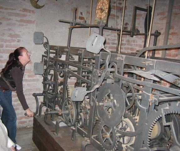 An image of towerclock being wound in the tower at the Schwaebisches Turmuhrenmuseum in Meindelheim Germany